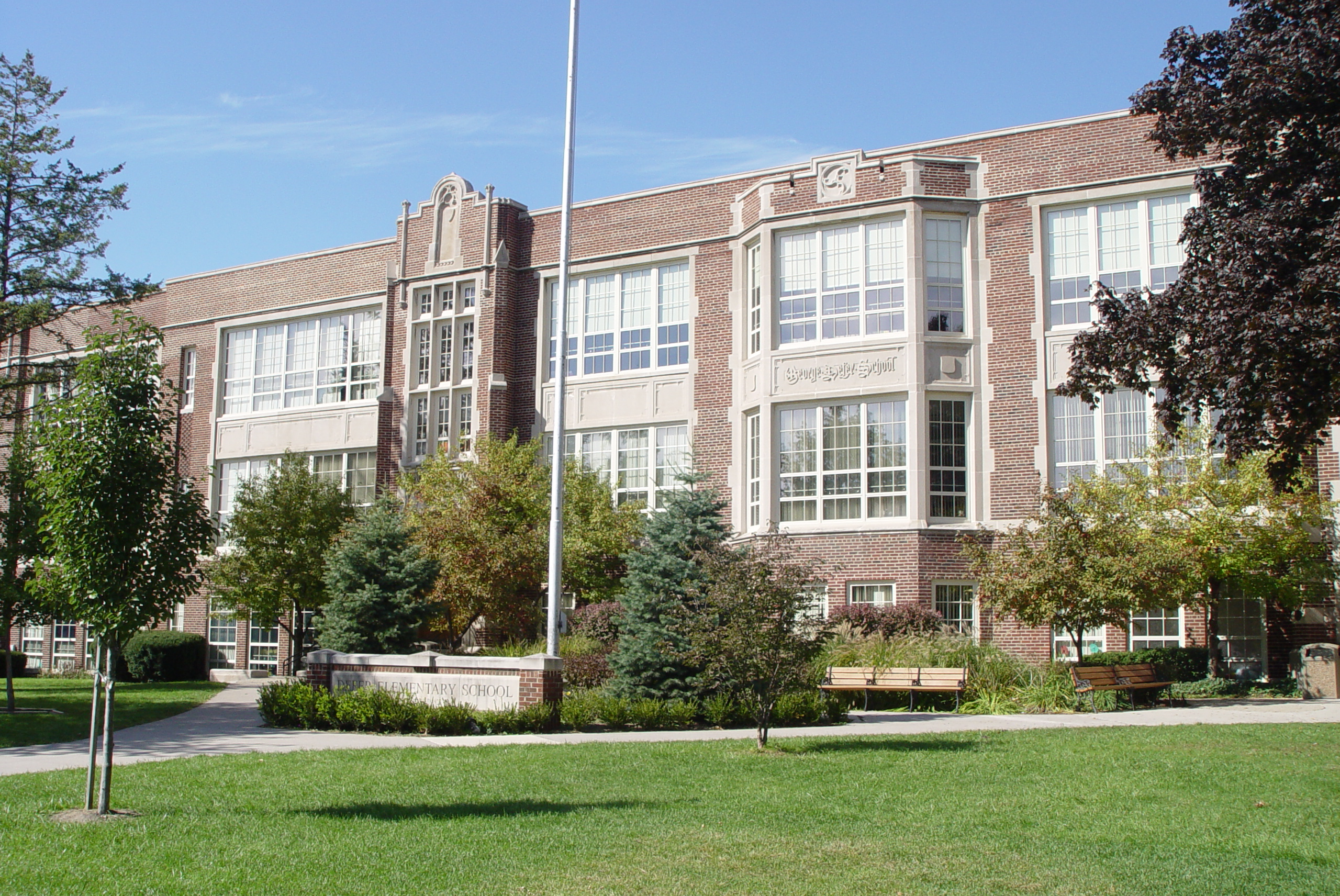 Defer Elementary School — in Grosse Pointe Park, Metro Detroit, Michigan. On the National Register of Historic Places in Wayne County, Michigan.